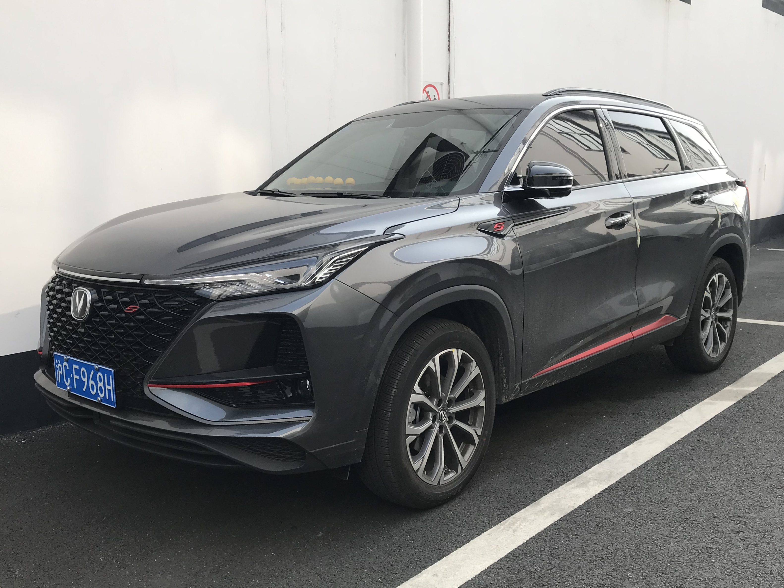 Changan CS75 Plus front